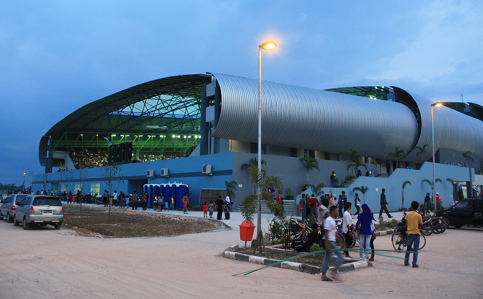 The Jakabaring Aquatic Center in Jakabaring Sport City, Palembang. The aquatic center is the main venue of aquatic sport in SEA Games 2011, Palembang, Indonesia.